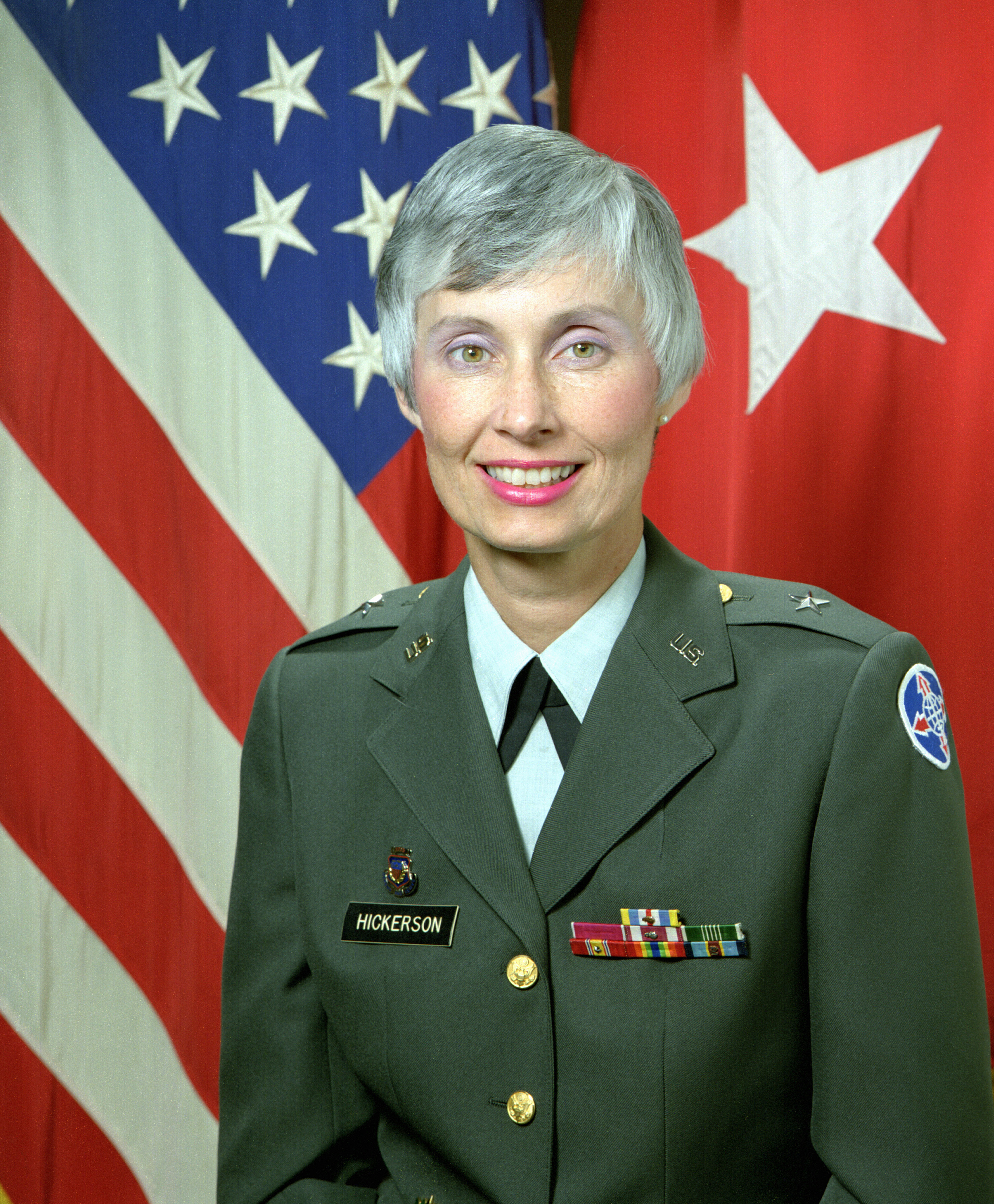 Brig. Gen. Patricia P. Hickerson